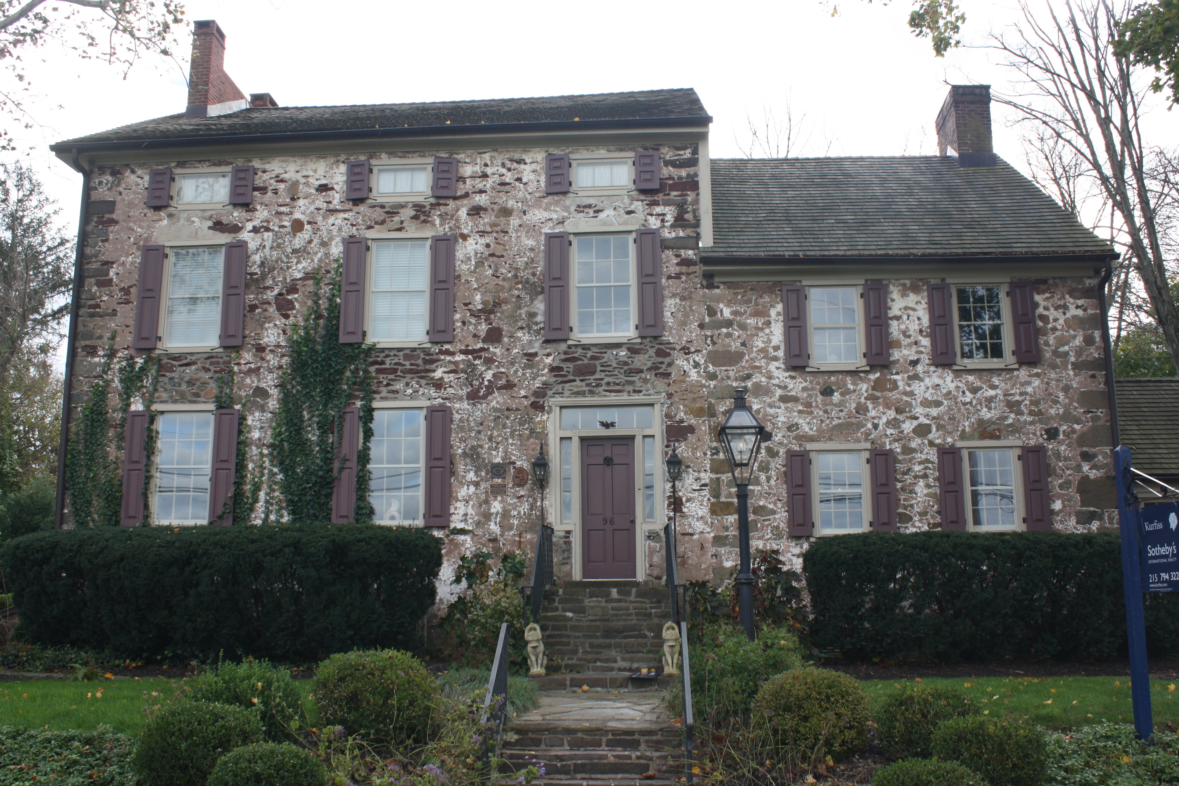 Eagle Tavern is a historic inn and tavern located at Upper Makefield Township, Bucks County, Pennsylvania. View from Woodhill Rd.